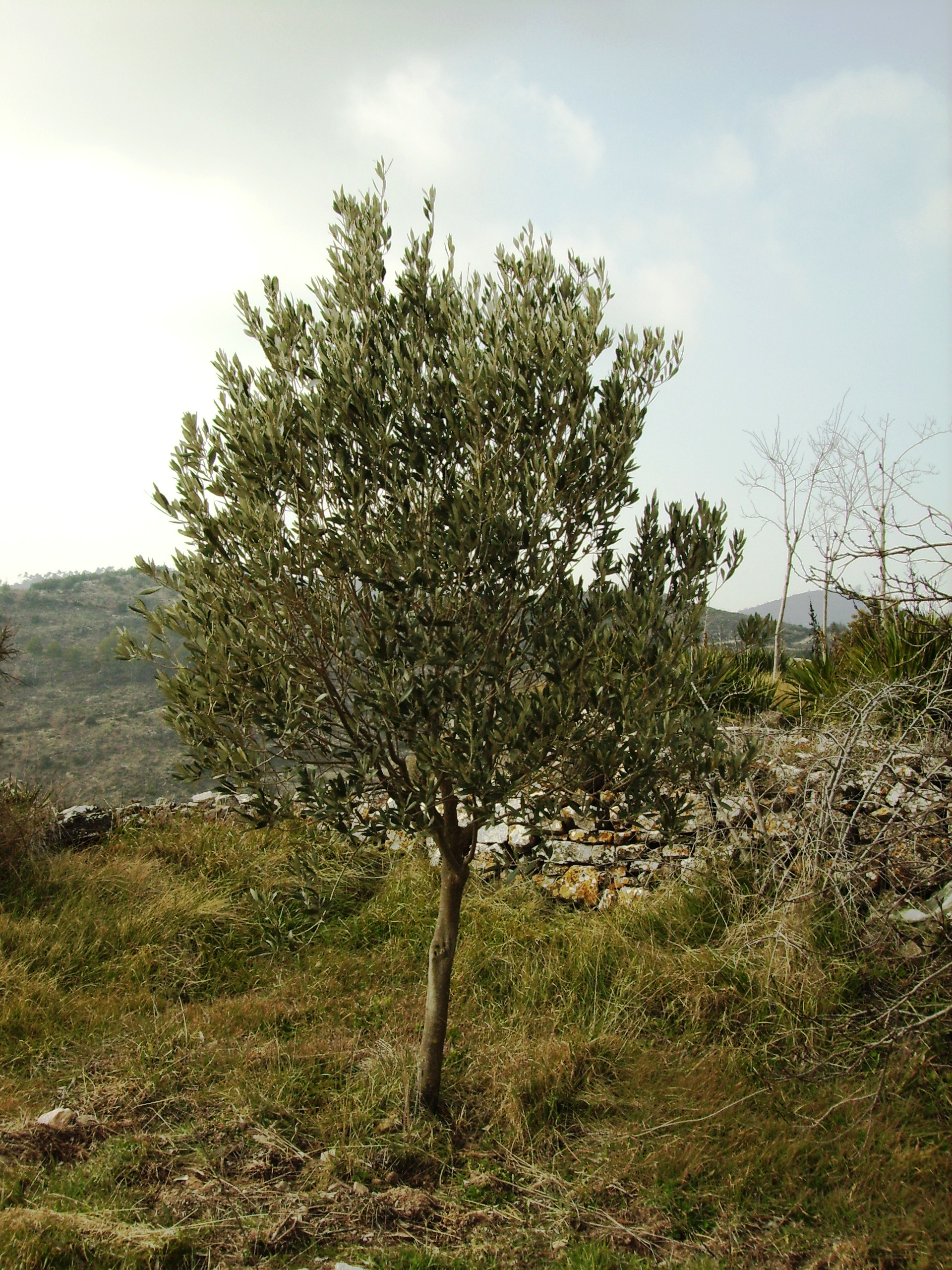 Image:Hojiblanca_12_febrer_2006_009.jpg Hojiblanca is a variety of Olea europaea, of course.--85.57.128.16 23:41, 1 May 2007 (UTC)